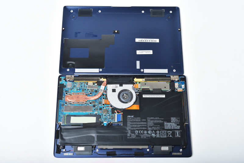 Zenbook architecture